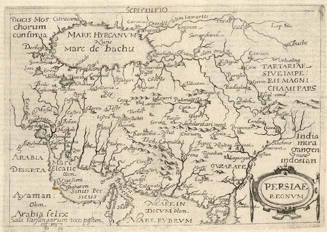 Persiae Regnum - Produced in Cologne FIRST edition : 1598 Produced using Copper engraving